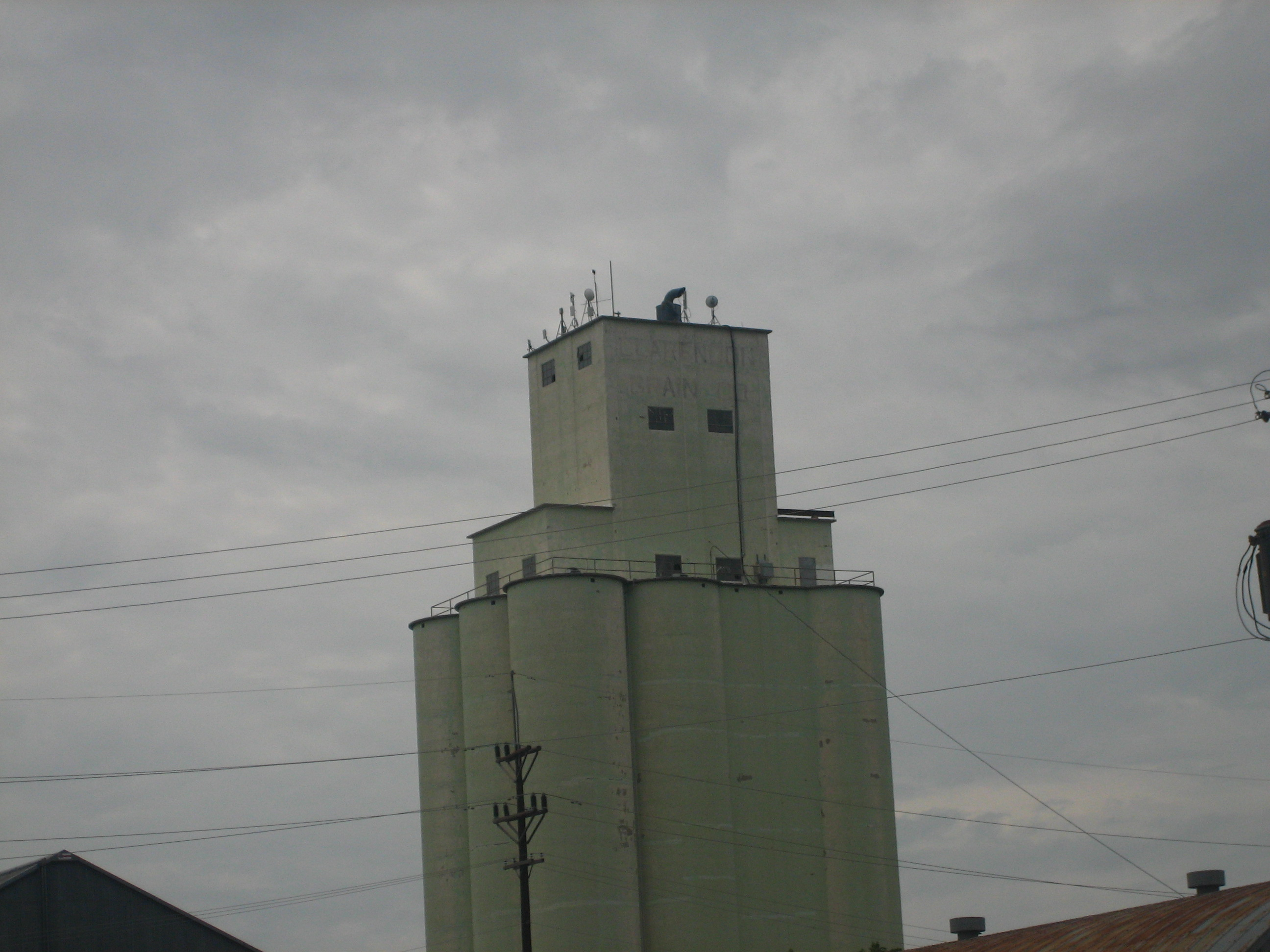 I took photo on July 15, 2008.Billy Hathorn (talk) 22:38, 22 July 2008 (UTC)